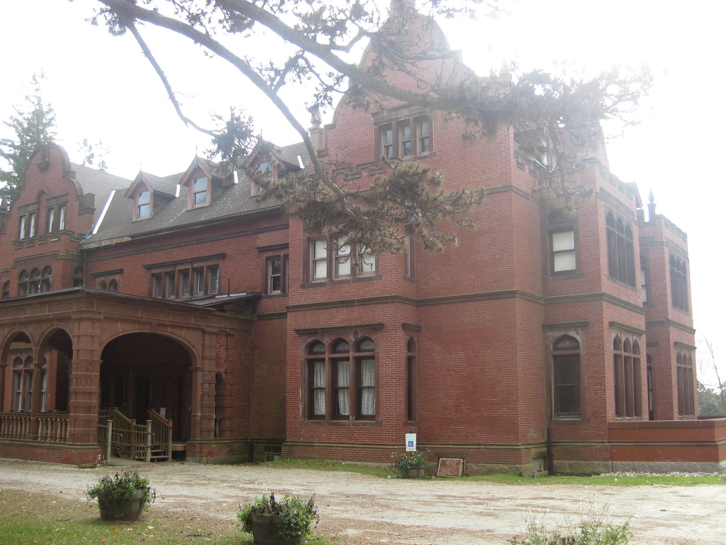 I took this photo myself. I'm releasing copyright on it.